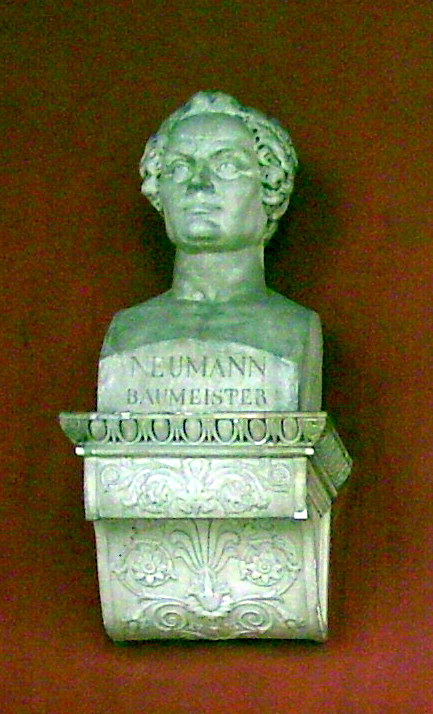 Bust of Balthasar Neumann at Ruhmeshalle ("Hall of fame"), München, Germany Bildhauer: Schönlaub, Fidelis. Picture taken by myself: Dominik Hundhammer, München, 27 March 2006.